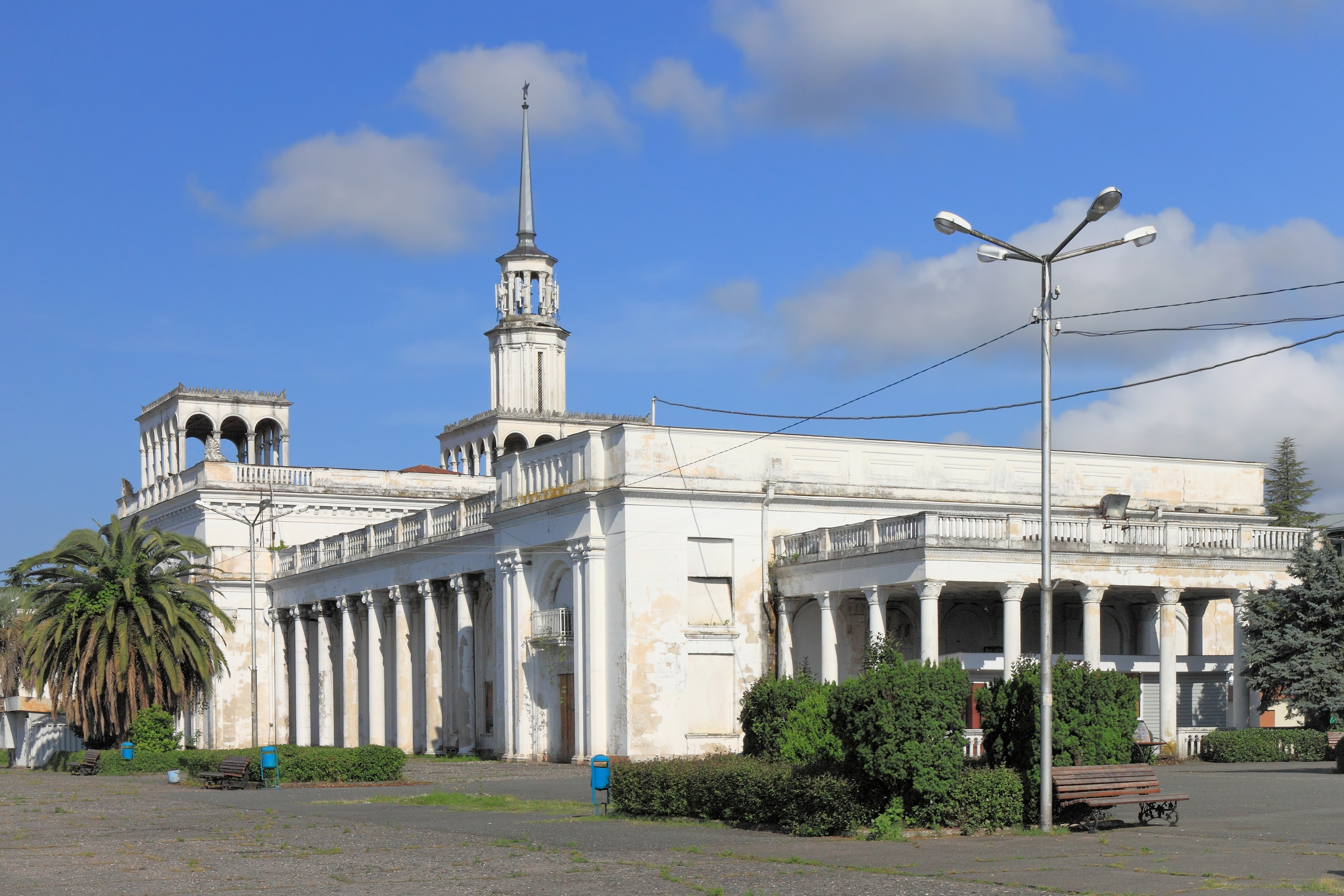 Railway station. Sukhumi, Abkhazia.